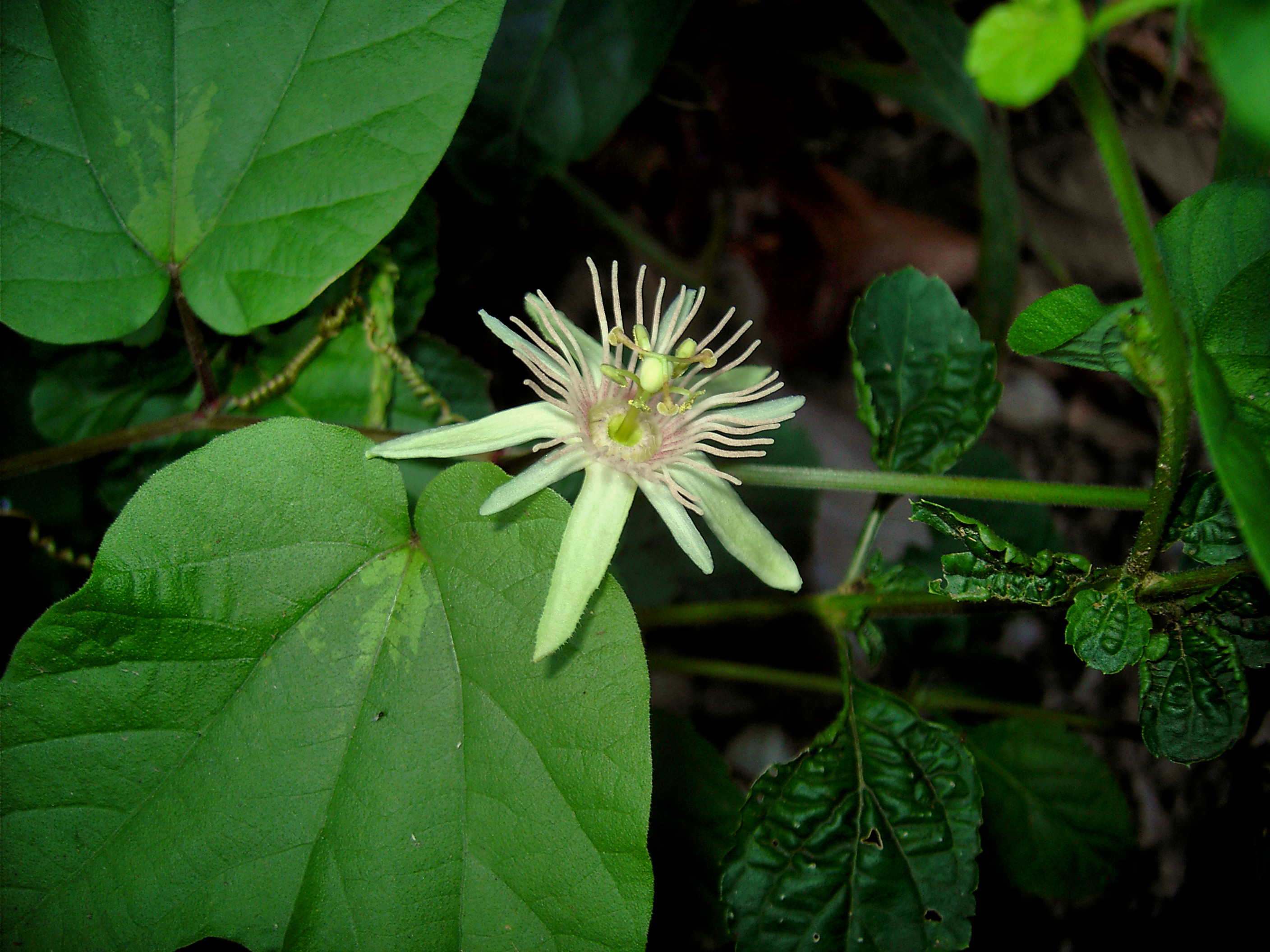 near Palm Tree House, Woodfordhill, Dominica, W.I.